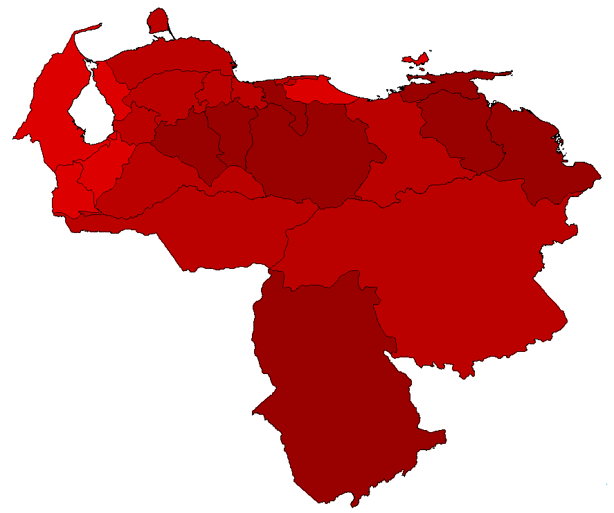 Results for the Venezuelan presidential election of 2006.